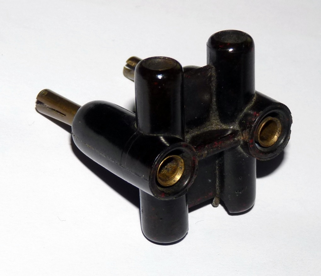 Old Italian "power" to "light" adaptor from the 1950s. Bakelite, Brass. Note the different in plug diameters (5 mm "power", 4 mm "light" as today) and center to center distances (26 mm vs. 19 mm)